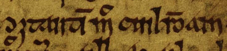 An excerpt from folio 15v of Oxford Bodleian Library MS Rawlinson B 488 (the Annals of Tigernach). The excerpt refers to Custantín mac Cuiléin, King of Alba.